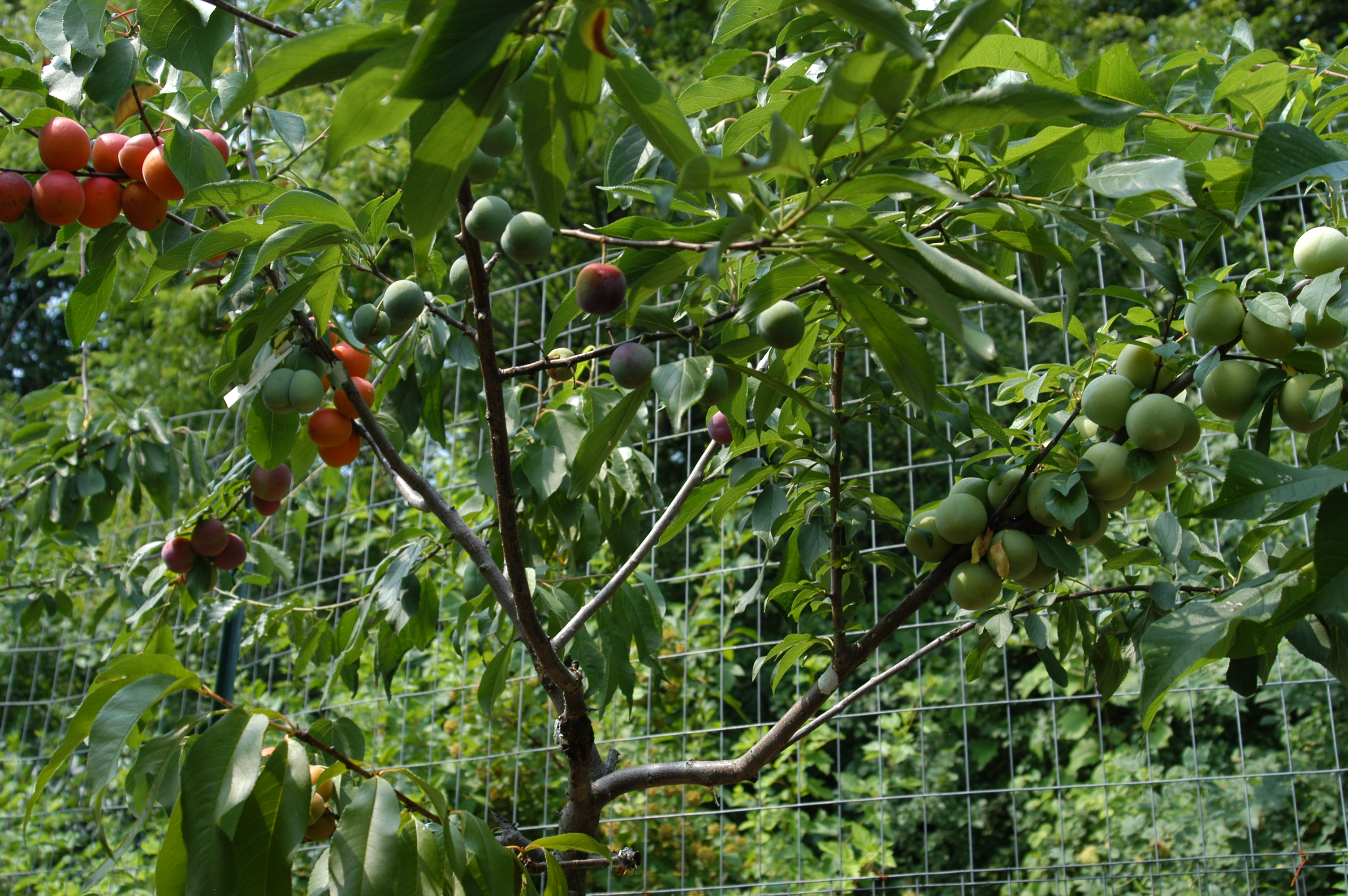 Tree of 40 Fruit by Sam Van Aken courtesy Ronald Feldman Fine Art - fruiting tree in the nursery.